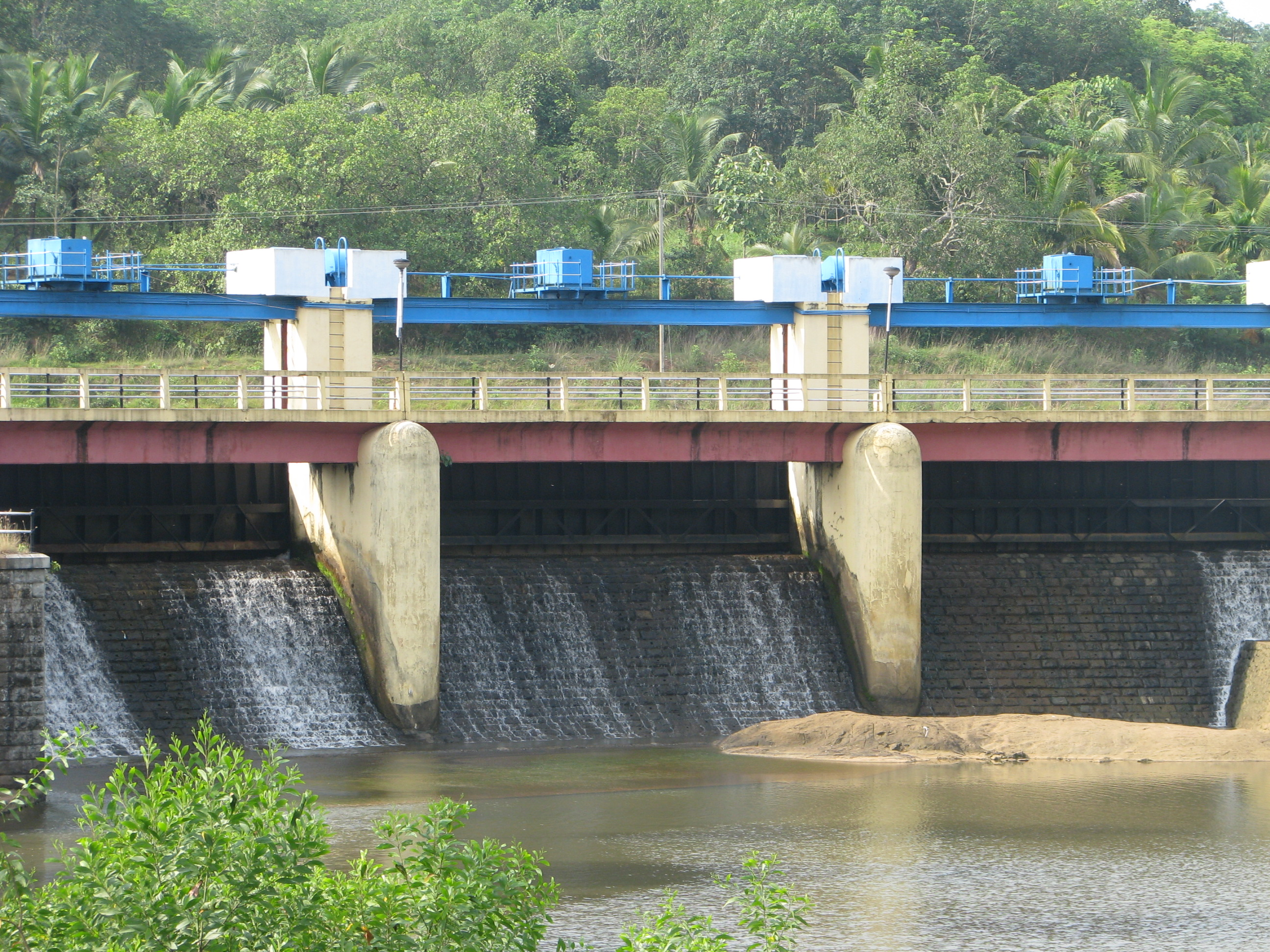 Aruvikara_Dam2